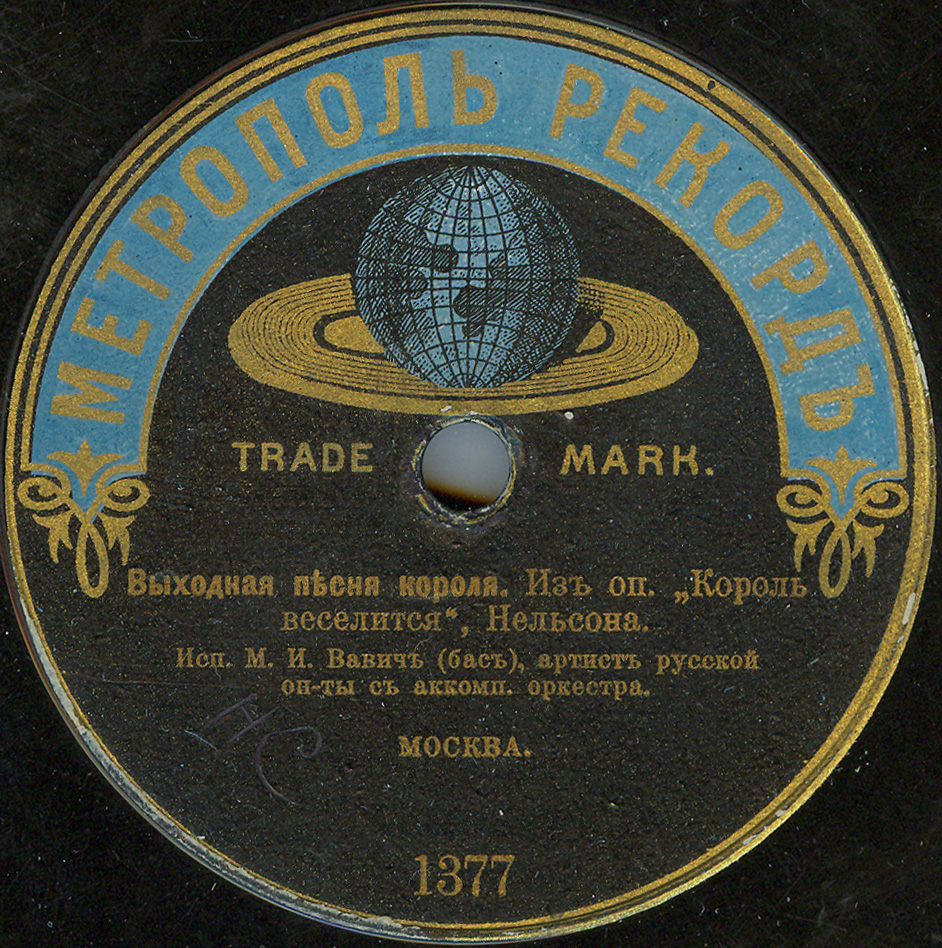 Photo of the disc 1377/1379 by Metropol Record, the first incarnation (pre-1917) of Russian label Aprelevsky zavod.